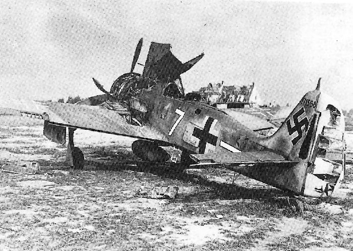 Destroyed German Luftwaffe Focke-Wulf Fw 190A fighter (s/n 171568?), 1945.